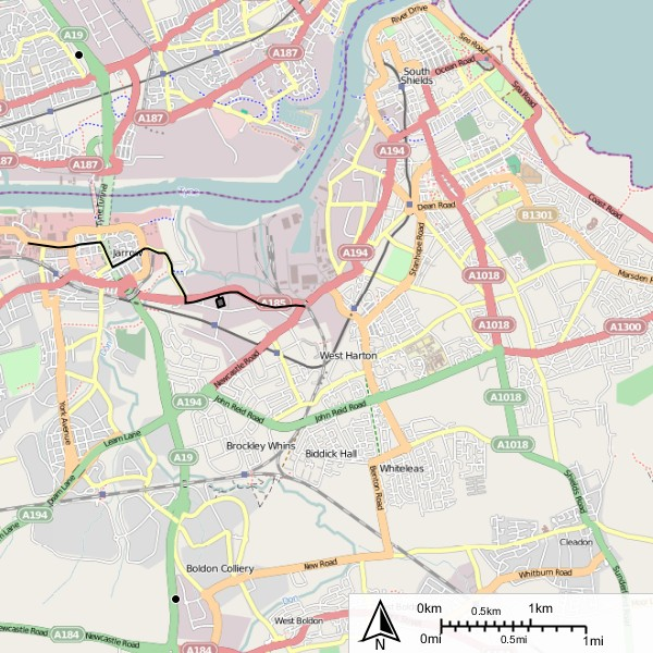 Jarrow and District Electric Tramways Legend: *━━━ Primary lines *━━━ Secondary lines *━━━ Tertiary lines